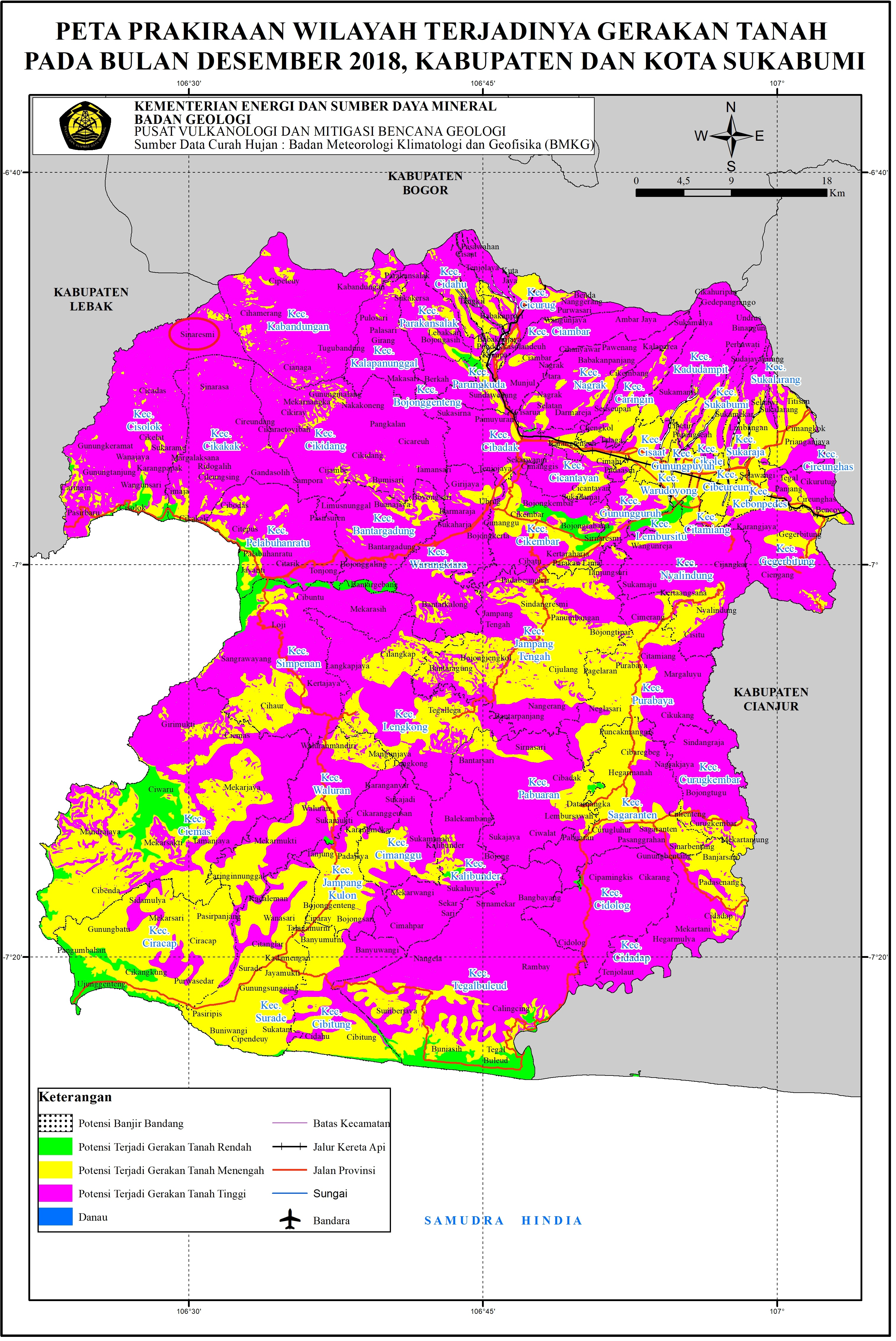 Landslide potential map for Sukabumi Regency, December 2018